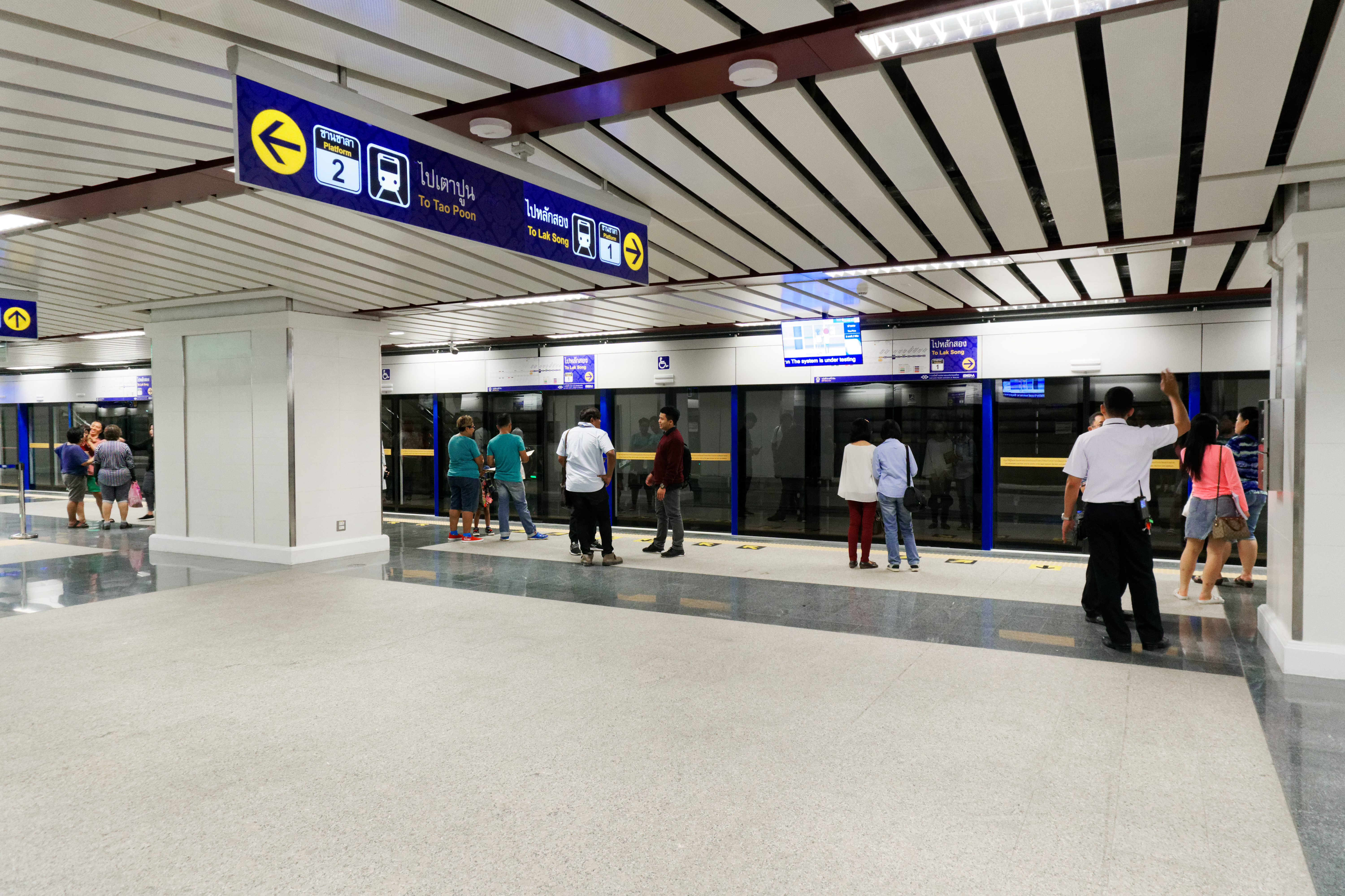 MRT Sanamchai platform Thonburi side